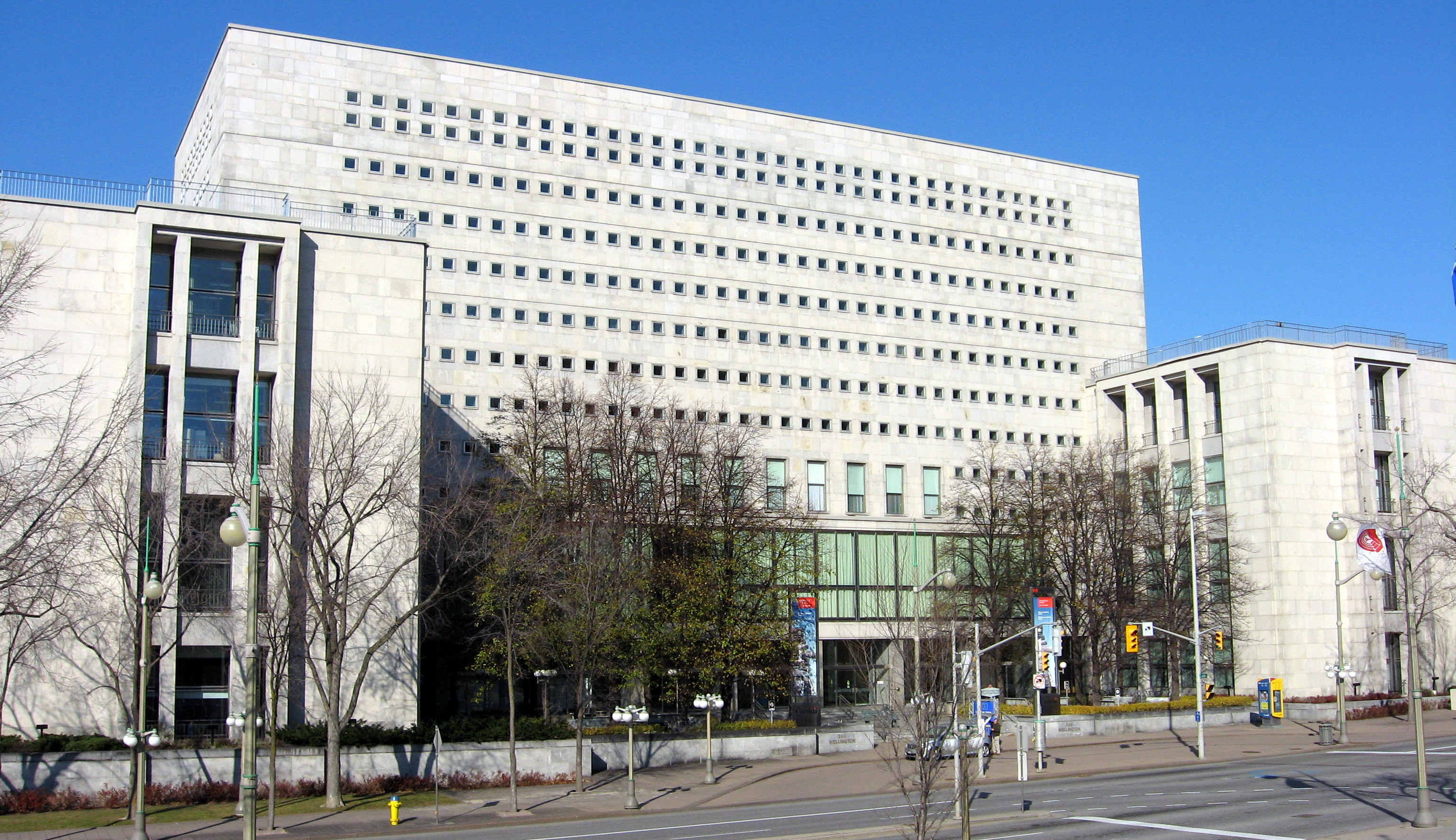 The headquarters of Library and Archives Canada on Wellington Street in Ottawa, Canada.